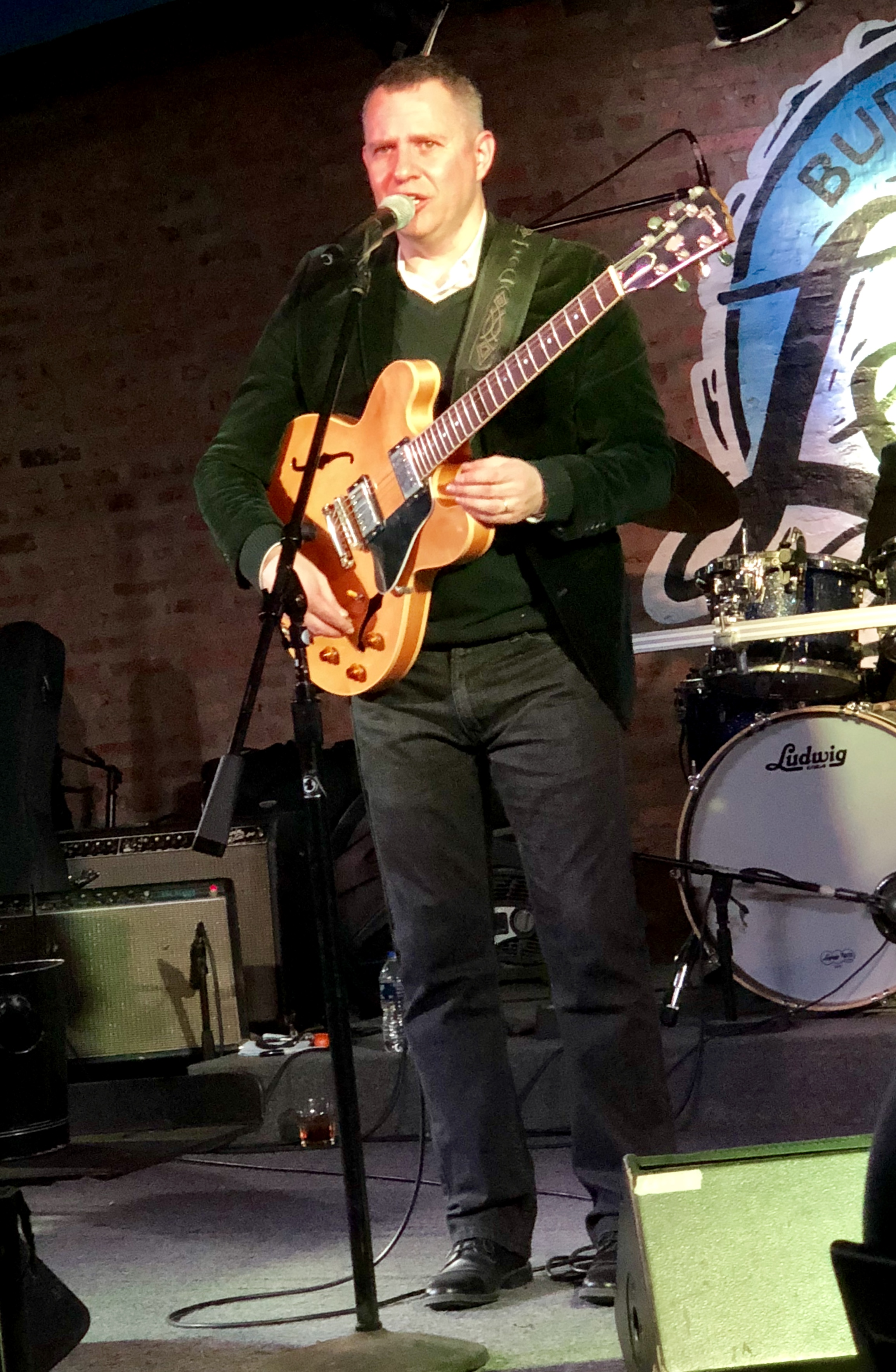 Photo of Guy King playing his 1983 ES 335N at Buddy Guy's Legends in Chicago